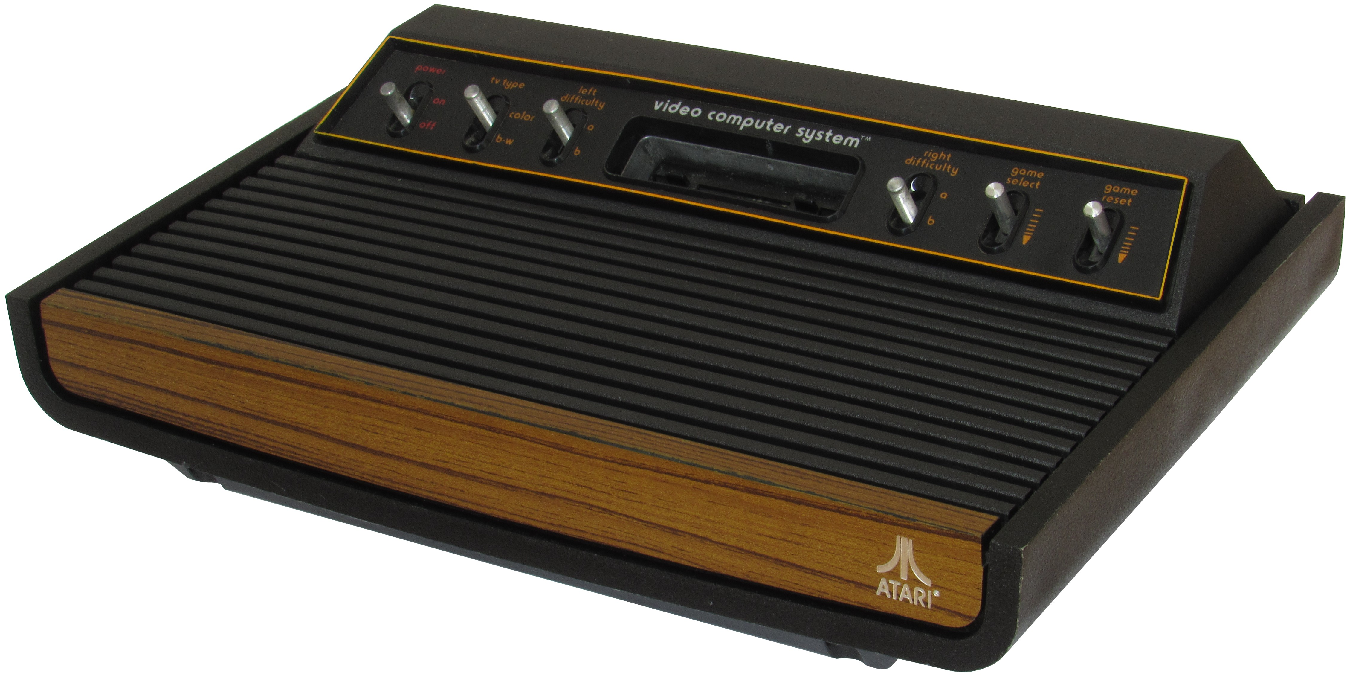 Photo of an Atari 2600 Heavy Sixer.